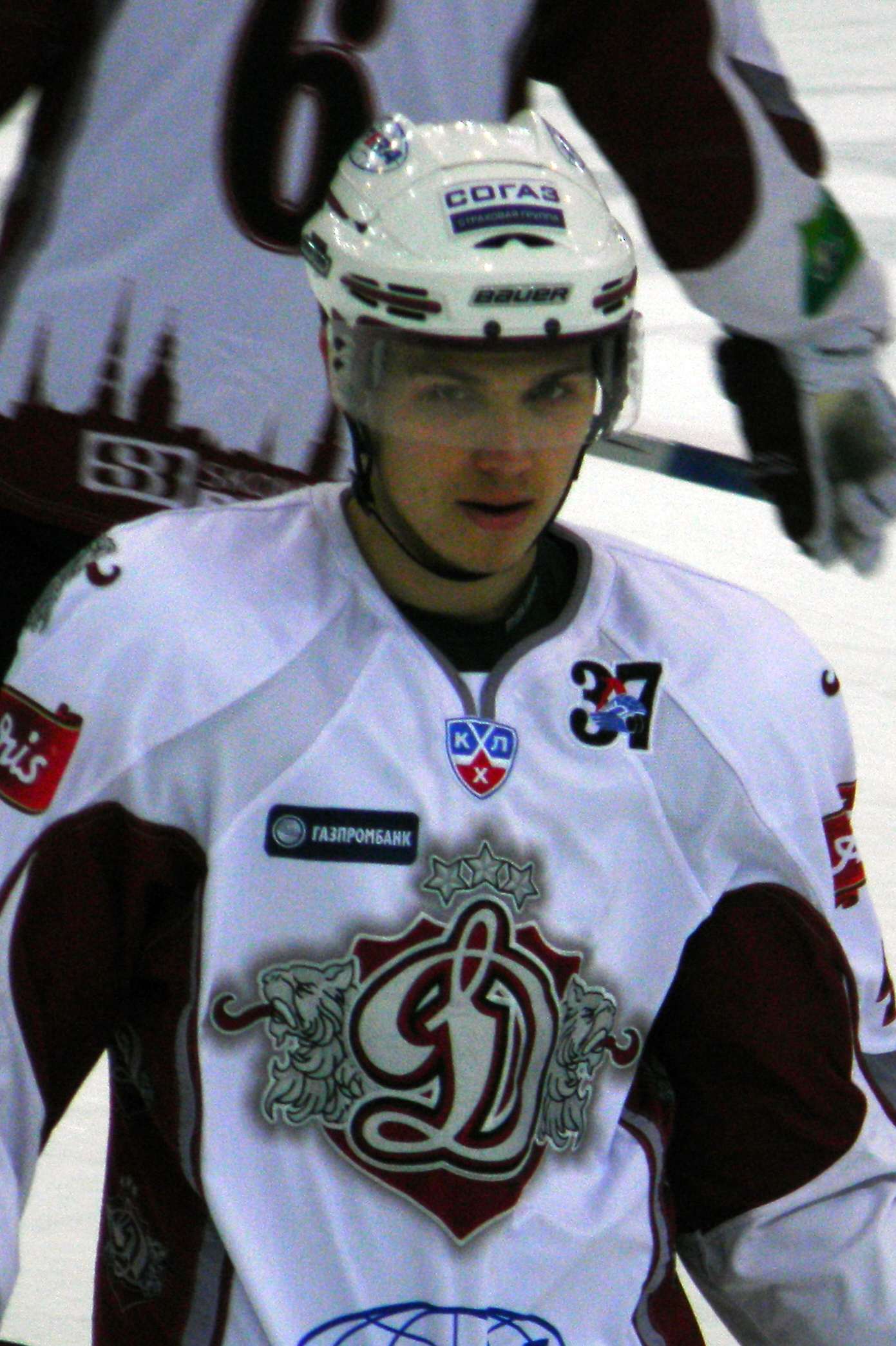 Oskars Cibuļskis, a hockey player from Torpedo Nizhny Novgorod